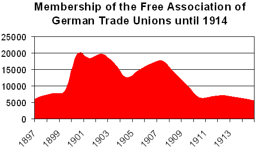 Created by User:Carabinieri using Microsoft Excel and MS Paint. Data from: Müller, Dirk H. [1985]. in Historische Kommission zu Berlin: Gewerkschaftliche Versammlungsdemokratie und Arbeiterdelegierte vor 1918 (in German). Berlin: Colloqium Verlag. ISBN 3-7678-0650-9. Table on pg. 343. A linear change in figures was assumed for years, for which there is no data: 1898, 1908-1909, 1911, 1913. Non-integer values that resulted from this are rounded. 1897 6803 1898 7744 1899 8684 1900 19752 1901 18353 1902 19757 1903 17061 1904 12627 1905 14799 1906 16662 1907 17633 1908 13906 1909 10179 1910 6454 1911 6794 1912 7133 1913 6567 1914 6000